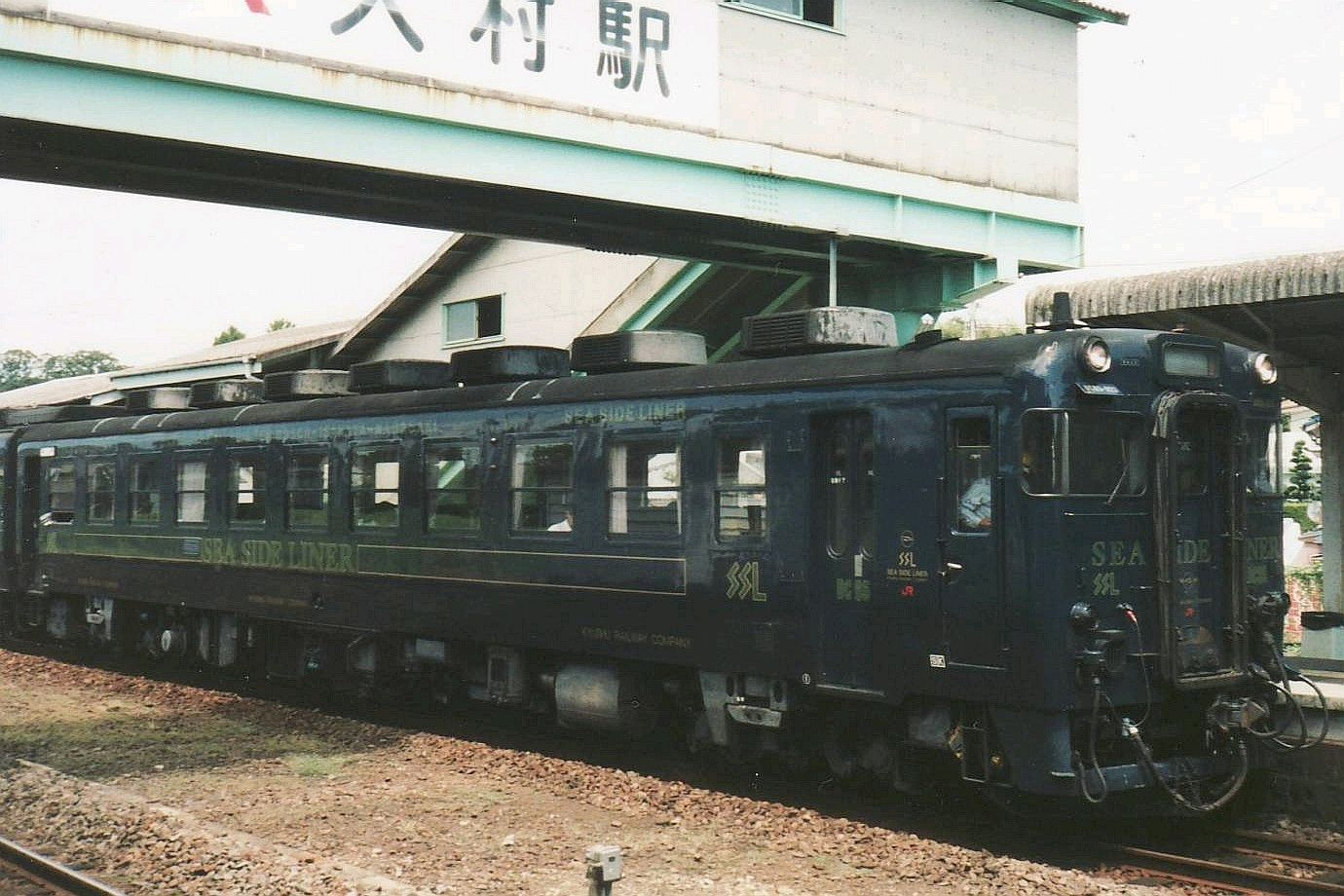 Company:Kyushu Railway Company Type:DMU type kiha65 Location:at Omura Station, Omura, Nagasaki, Japan. Scanned from negative color print